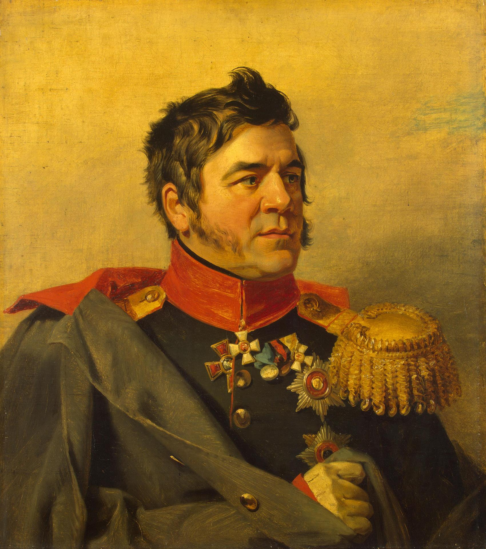 Ivan Leontyevich Shahovskoy (23.03.1777 – 20.03.1860) russian general.